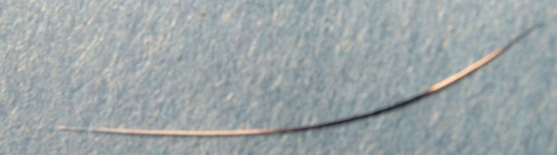 A single cat hair. The agouti locus is responsible for the hair banding